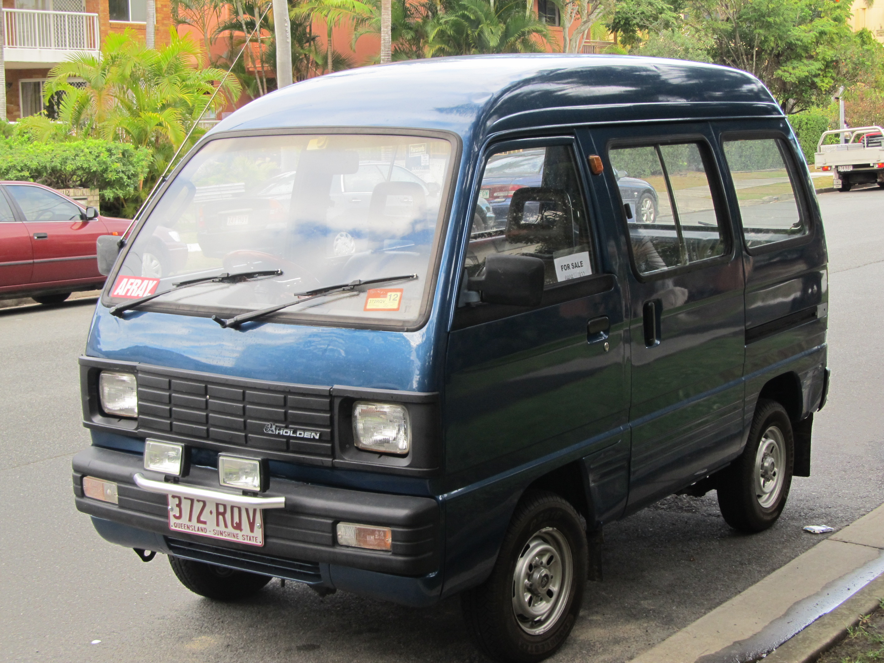 1985 Holden Scurry (NB) van. Photographed in Broadbeach, Queensland, Australia. Vehicle registration enquiry results Jurisdiction Queensland Registration 372RQV Chassis code 8T753EW200178B Year of manufacture 1985